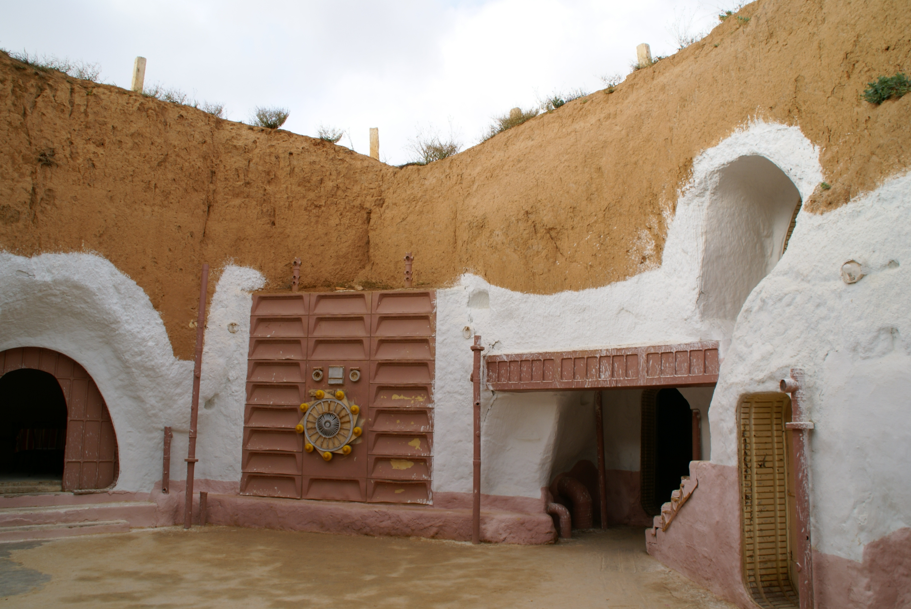 A Star Wars film location in Tunisia.